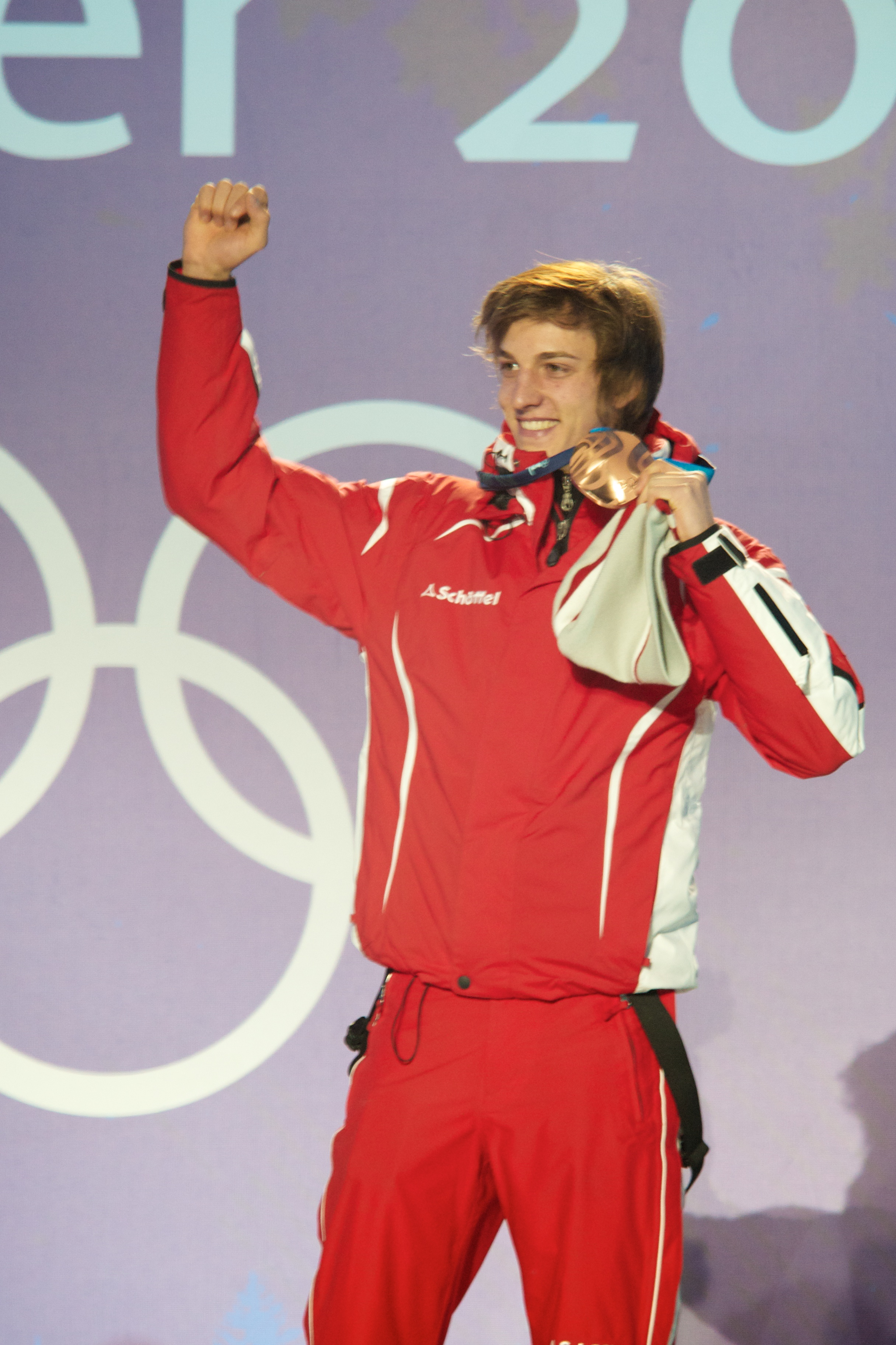 Gregor Schlierenzauer celebrates his bronze medal at large hill in Vancouver 2010 ski jumping